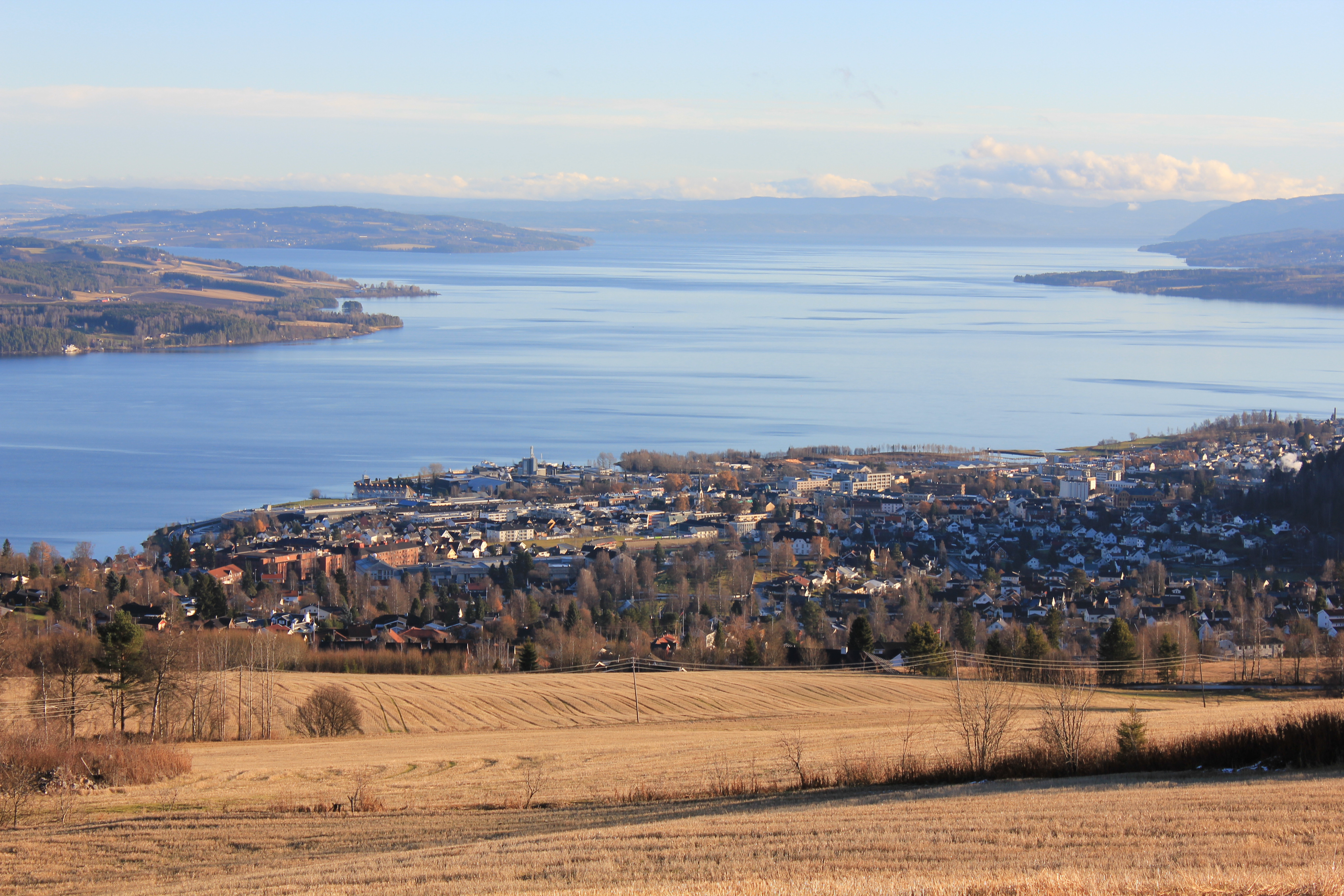 The small Norwegian town Gjøvik by Lake Mjøsa. In the background to the left is Helgøya Island and to the right the Skreia Mountains. Lake Mjøsa is Norway's largest lake, the second deepest of Norway and the fourth deepest in Europe.